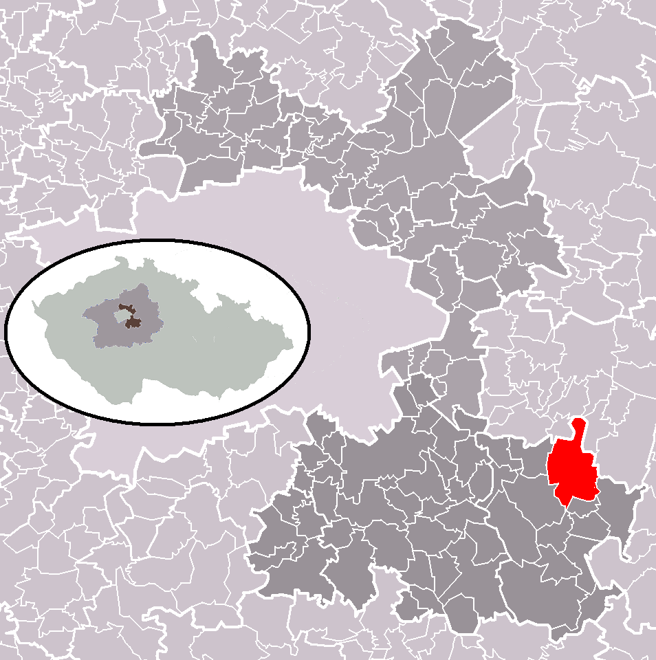 Location of Kostelec nad Černými lesy town within Prague-East District and administrative area of Říčany as a Municipality with Extended Competence.